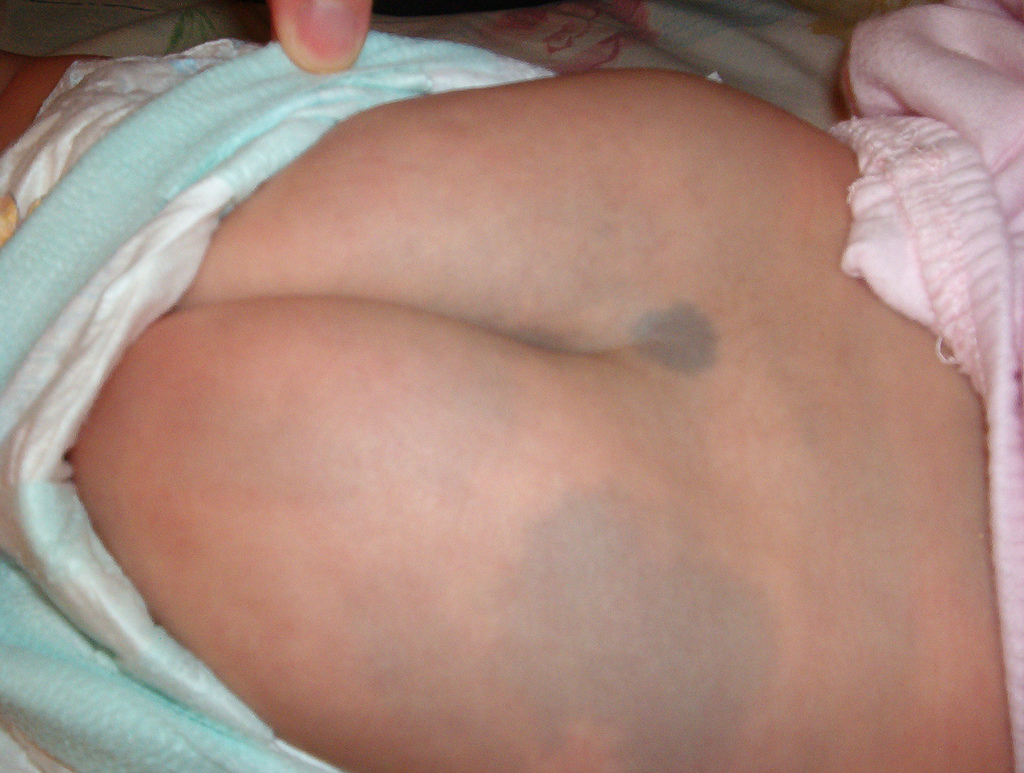 A Mongolian spot, visible on the lower back of a six-month-old Taiwanese baby girl.